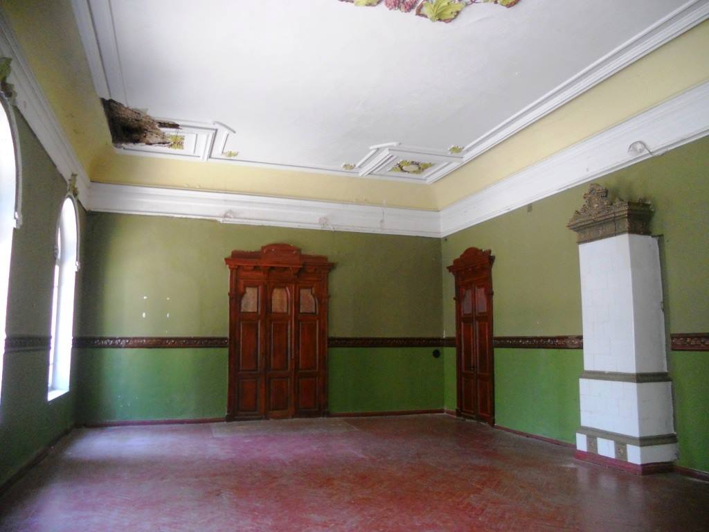 Muzeul zemstvei in Chișinău